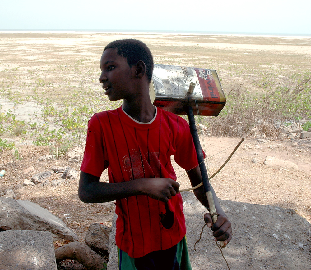 A local boy with an improptu cora instrument. Photographed near Banjul in The Gambia.